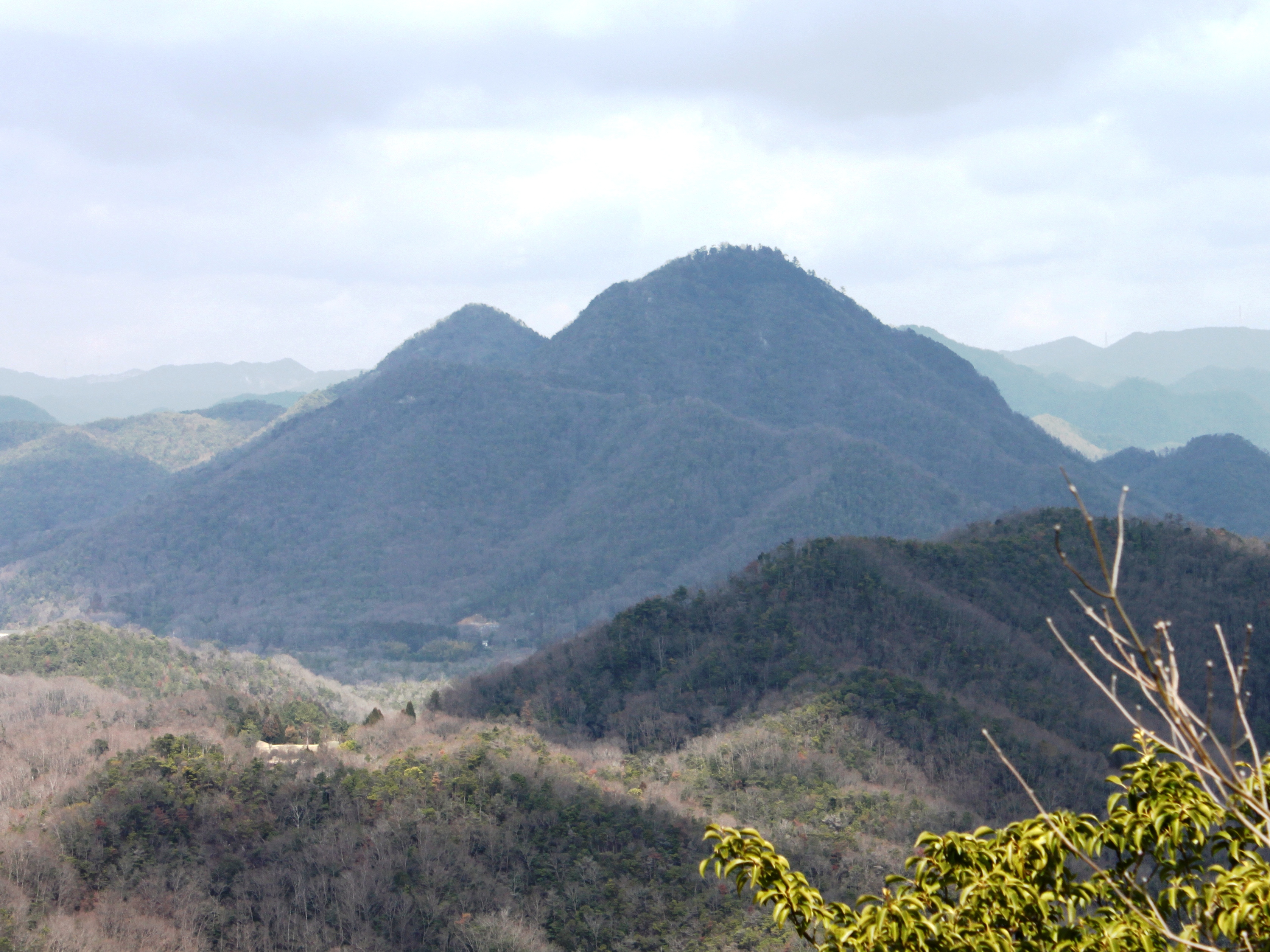 Mount Hatsuka as seen from the SSE in Hyogo Japan. Shot at top of the Mount Oiwa.